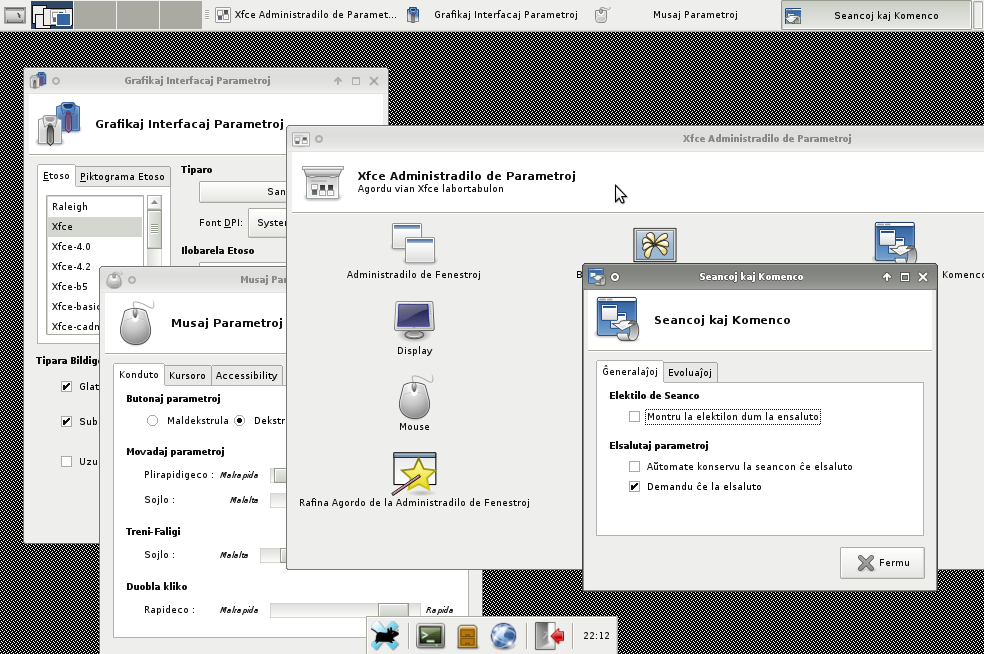 Xfce 4.4.2.1 etc on Debian GNU/Linux lenny/sid. Default settings, Tango icons. Partial Esperanto locale.